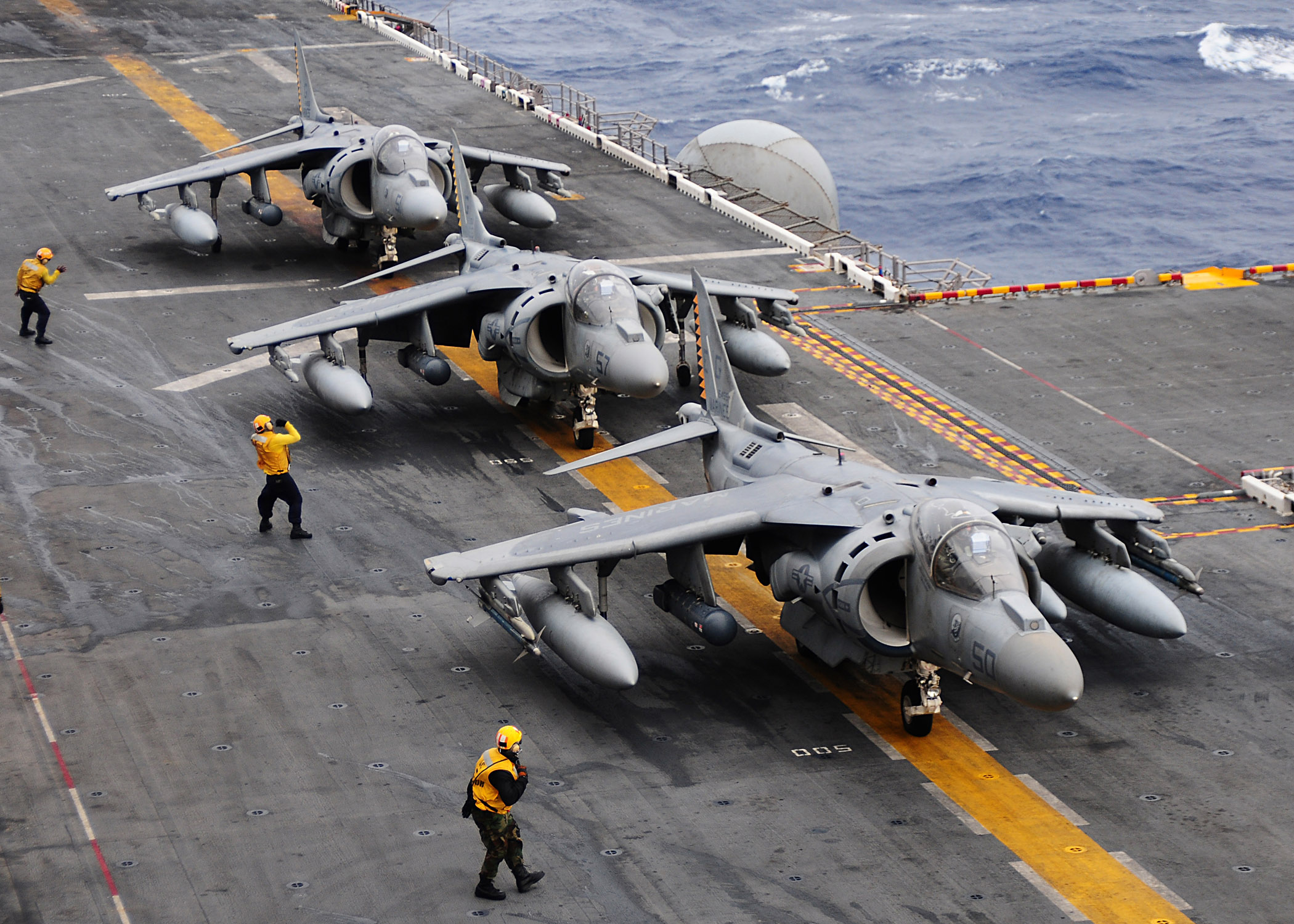 ATLANTIC OCEAN (Dec. 3, 2009) An AV-8B Harrier from Marine Medium Tiltrotor Squadron (VMM) 263 (Reinforced), 22nd Marine Expeditionary Unit, prepares for its final takeoff from the amphibious assault ship USS Bataan (LHD 5) after completing a seven-month deployment. The Bataan Amphibious Ready Group is returning to homeport after conducting maritime security operations in the U.S. 5th and 6th Fleet areas of responsibility. (U.S. Navy photo by Mass Communication Specialist 2nd Class Kelvin Edwards/Released)